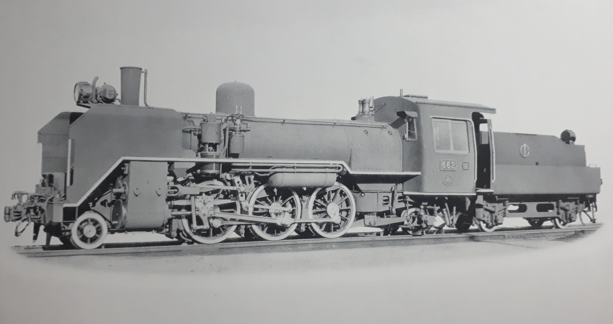 Class 660 steam locomotive of the Chosen Railway